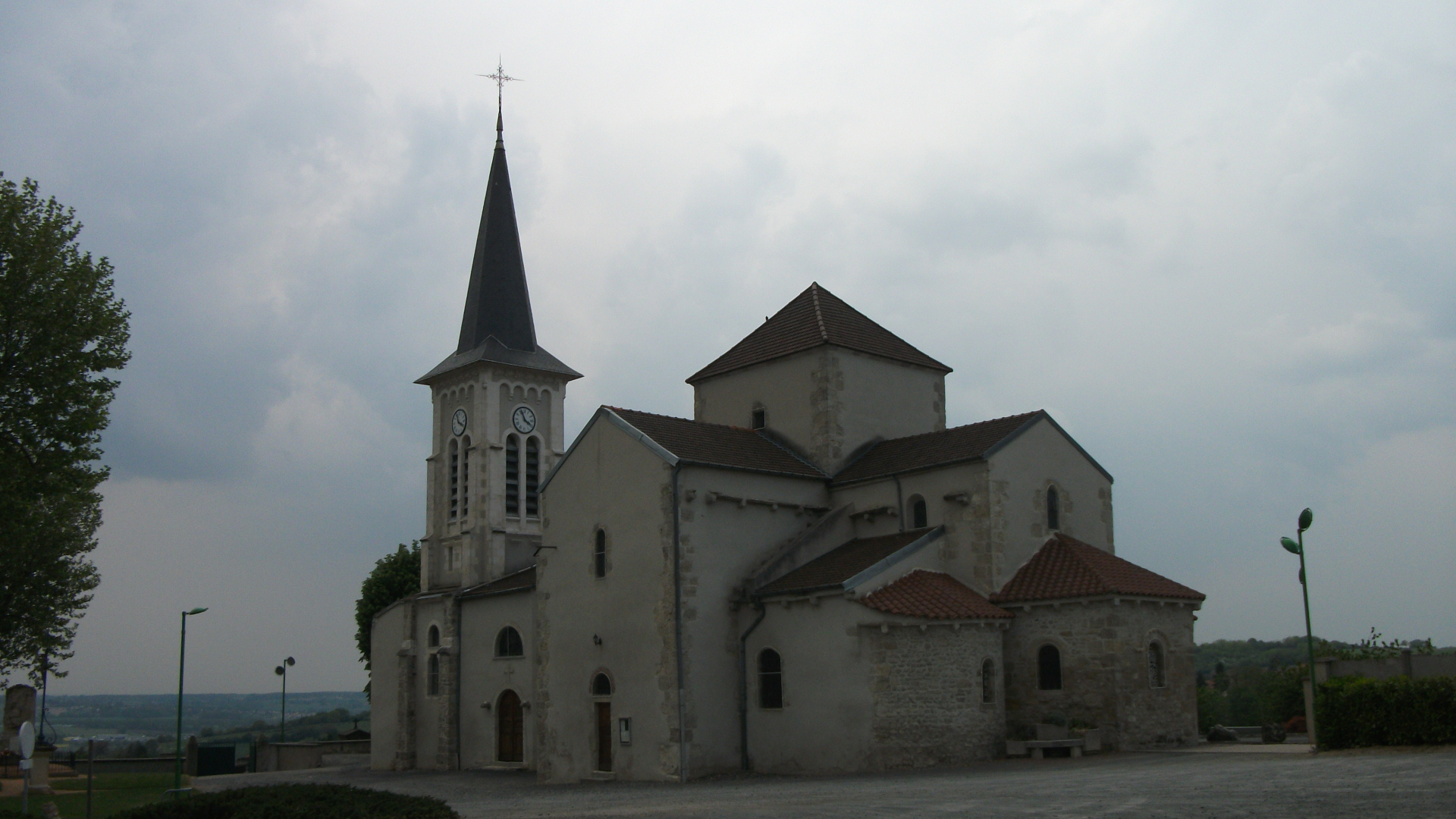 Creuzier-le-Vieux church (Allier, Auvergne, France)